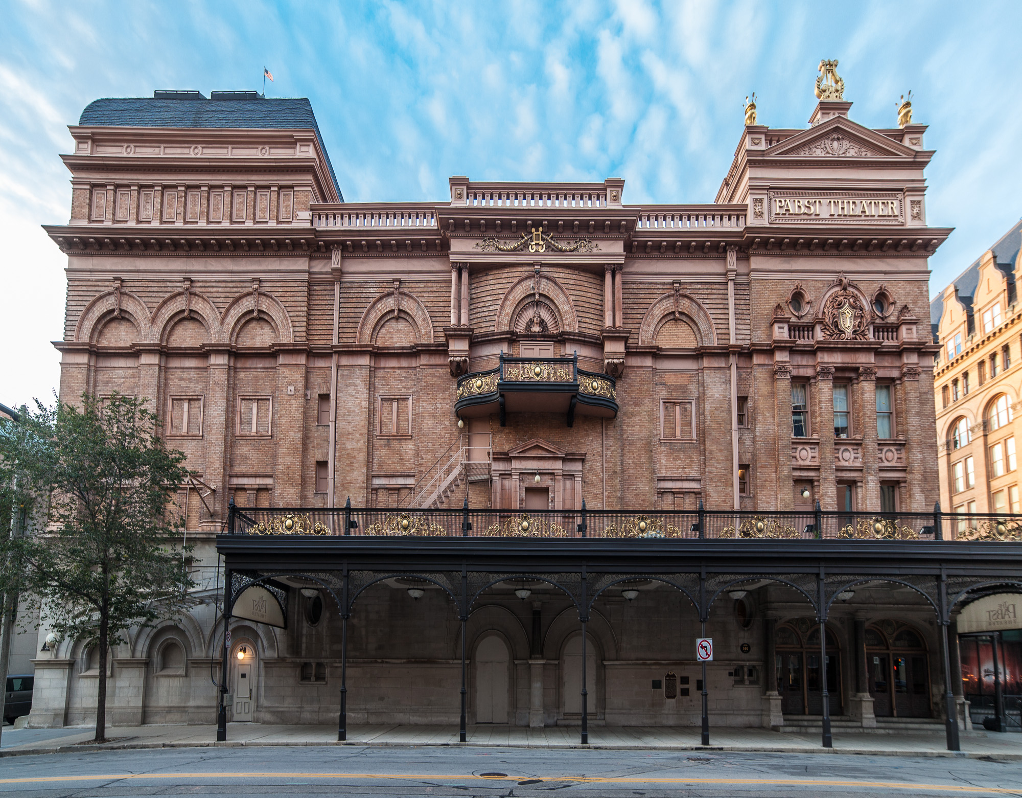 Pabst Theater, Milwaukee Wisconsin. Built 1895 front view taken 2012